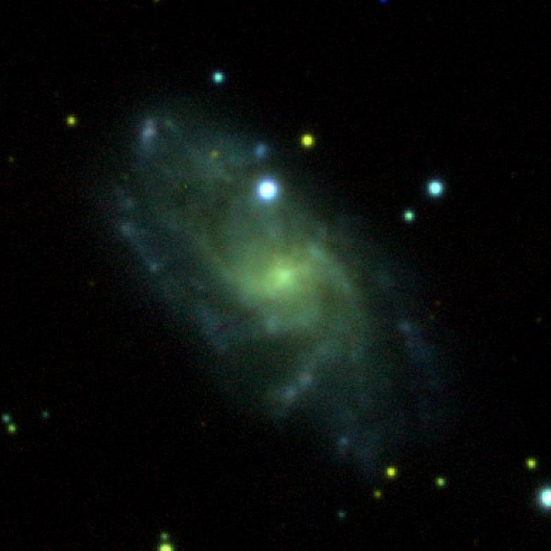 NGC 6801 - PANSTARRS1